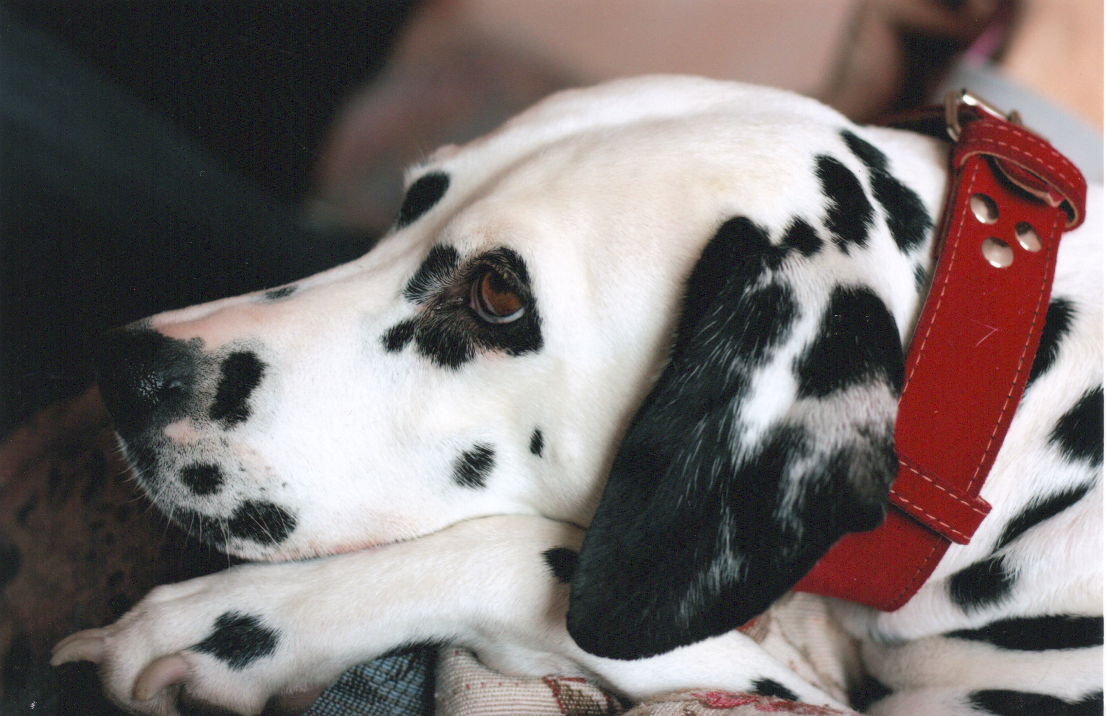 Dalmatian